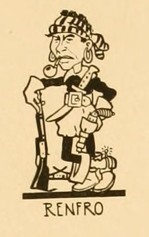 This is a clipping from the title page of a 1911 book, The Cartoon: A Reference Book of Seattle's Successful Men, copyrighted in 1911, scanned and placed in pdf format on at The clipping shows the person the article is about, Alfred T. Renfro.